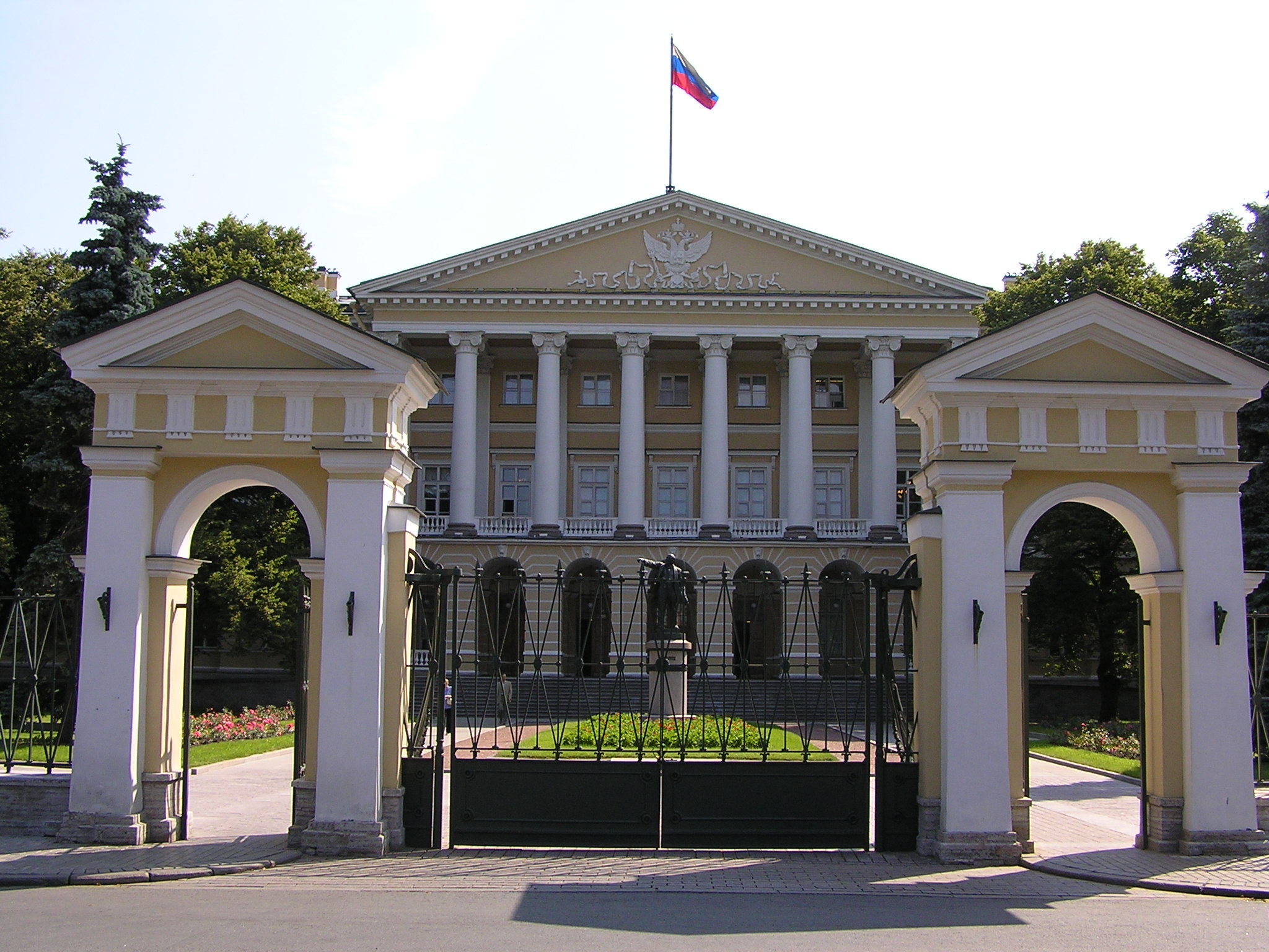 Smolny - City government residence,Saint Petersburg/Russia